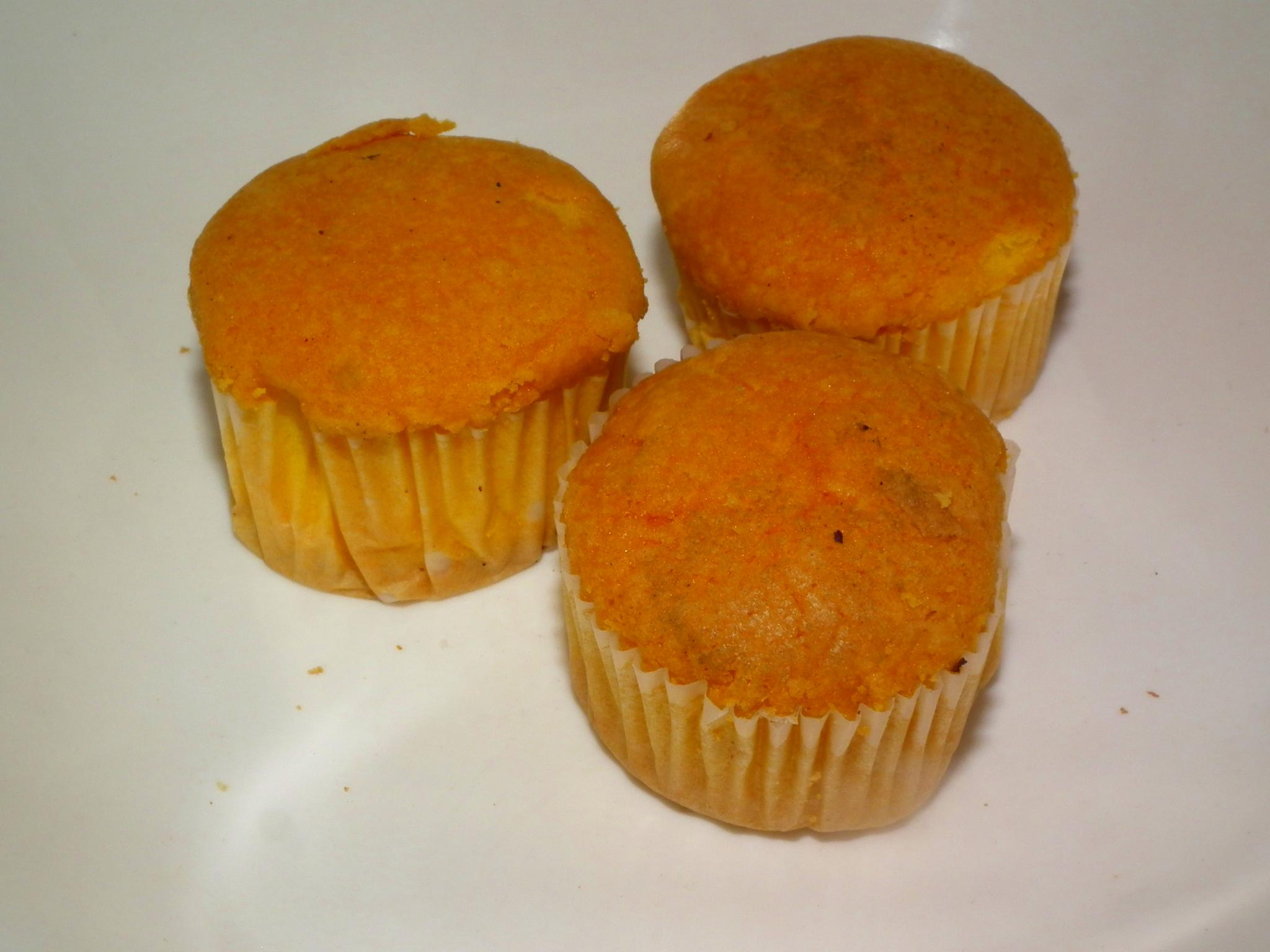 fairy cake; Australian